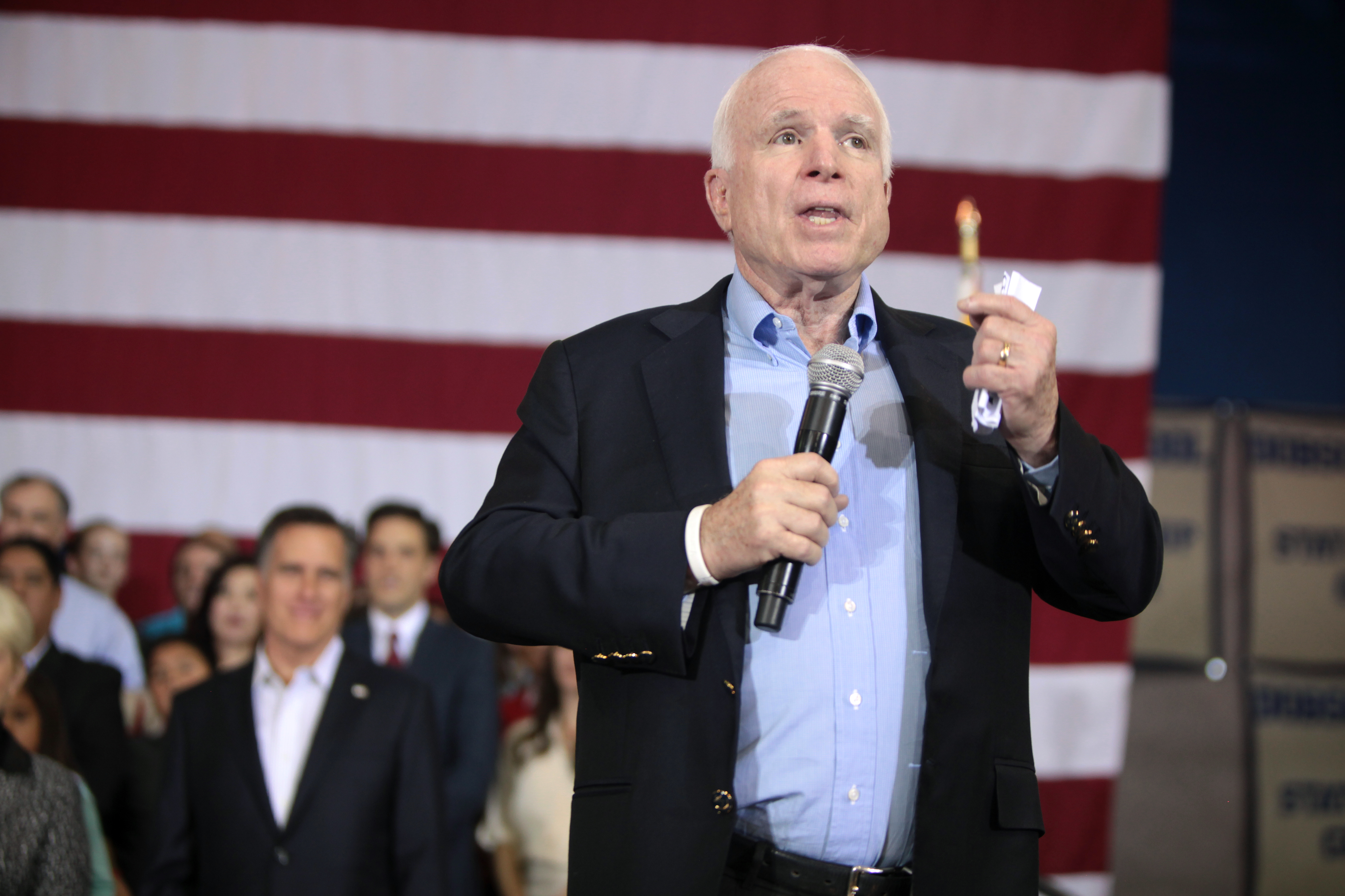 John McCain at a campaign rally in Mesa, Arizona.